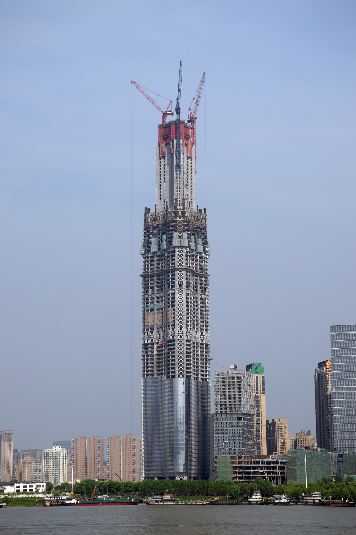 Wuhan Greenland Center